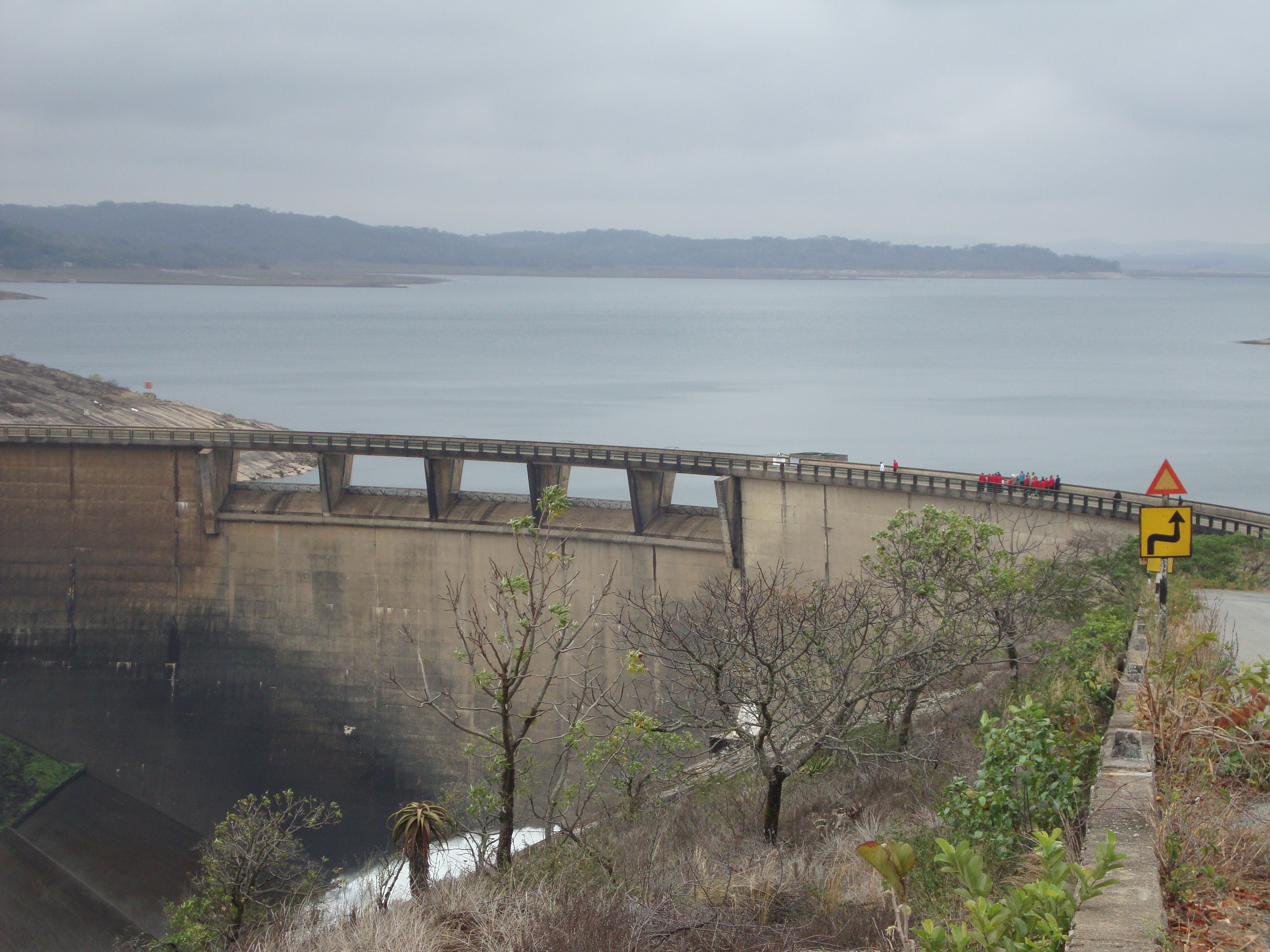 This is an image of food from Zimbabwe